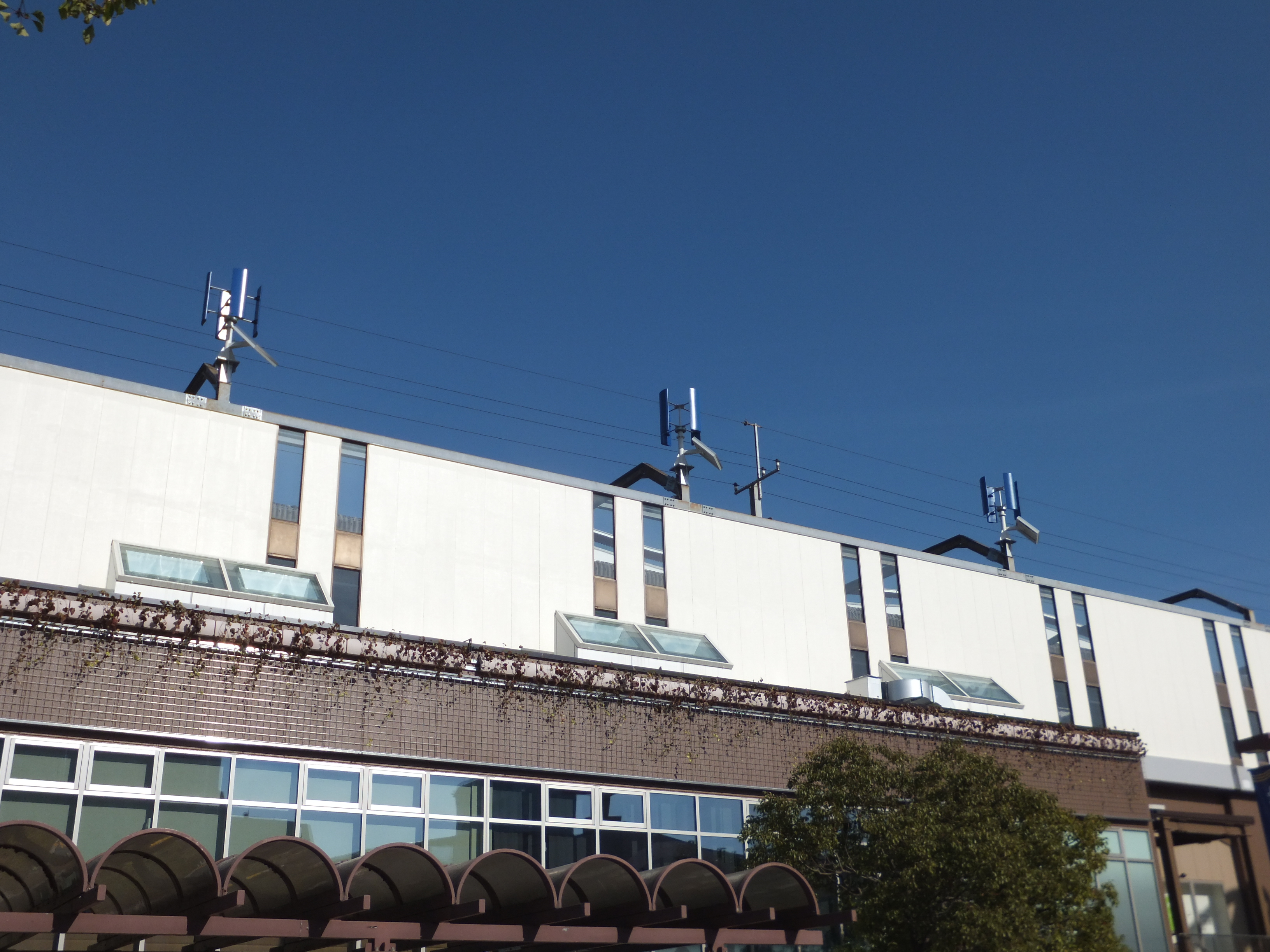 Kaihimmakuhari (Kaihin-Makuhari) Station on the Keiyo Line, Chiba, Japan